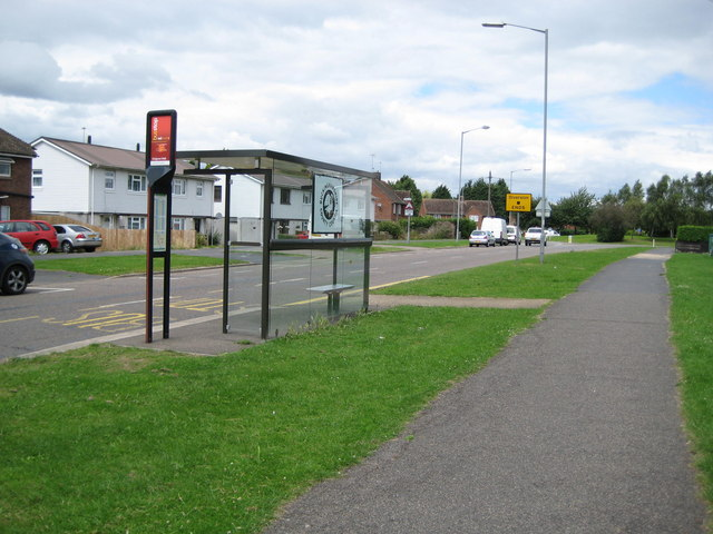 Aylesbury: Bus stop in Churchill Avenue These distinctive Red Route bus stops and shelters are promininent items of street furniture in Aylesbury. This is the Chalgrove Walk bus stop in Churchill Avenue on the Southcourt estate.